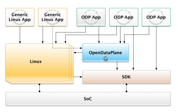 OpenDataPlane diagram